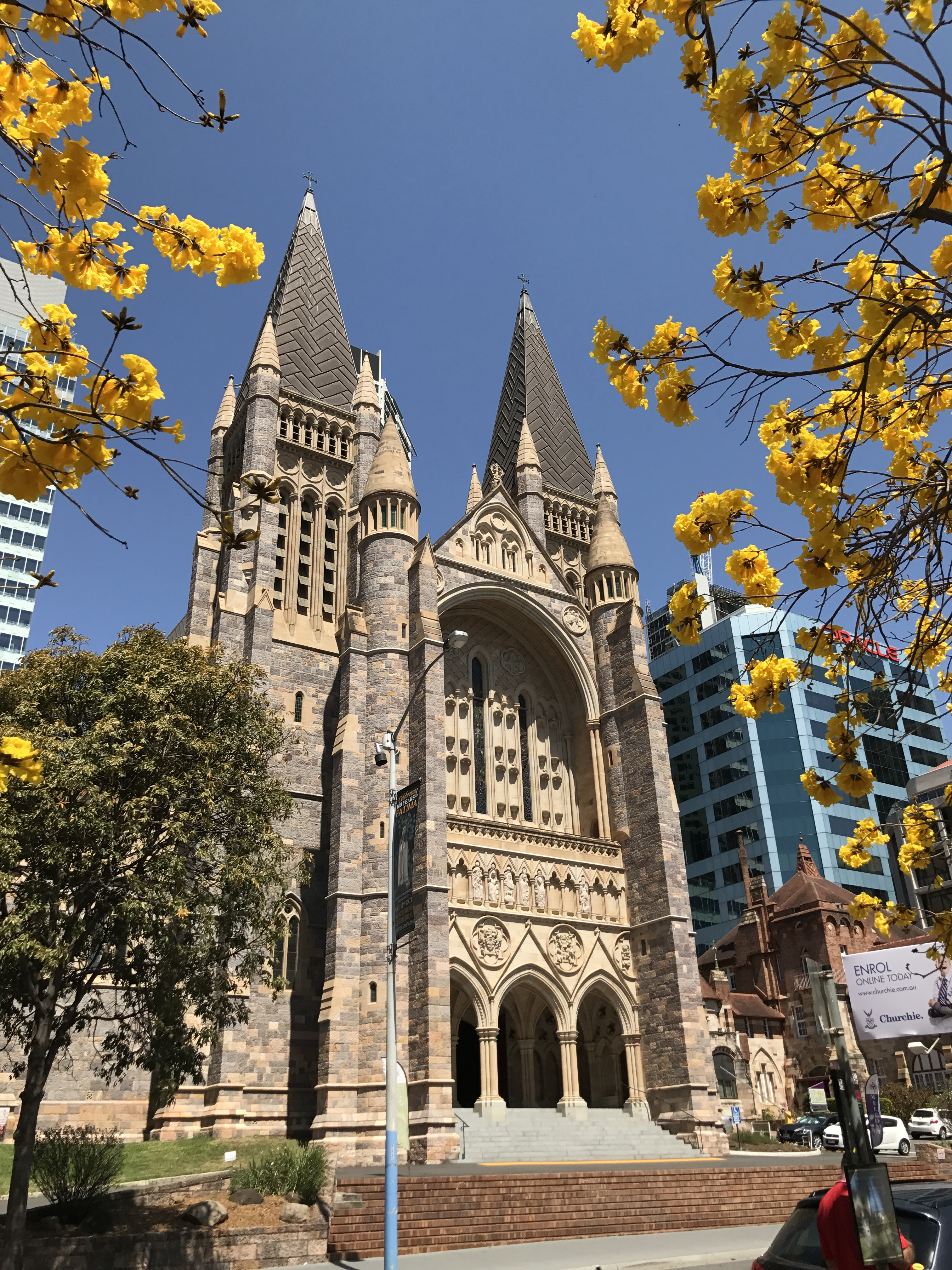 St John's Cathedral, Brisbane facade in spring 2017